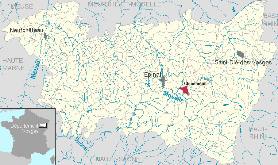 Cheniménil in the department of Vosges, Lorraine, France